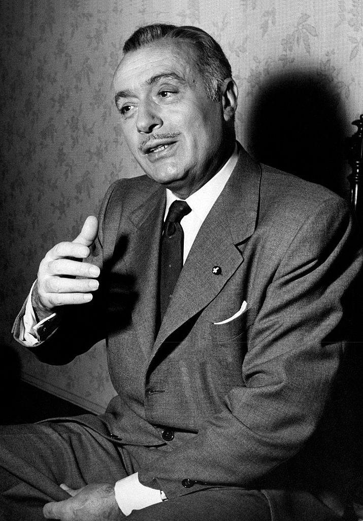 Charles Boyer